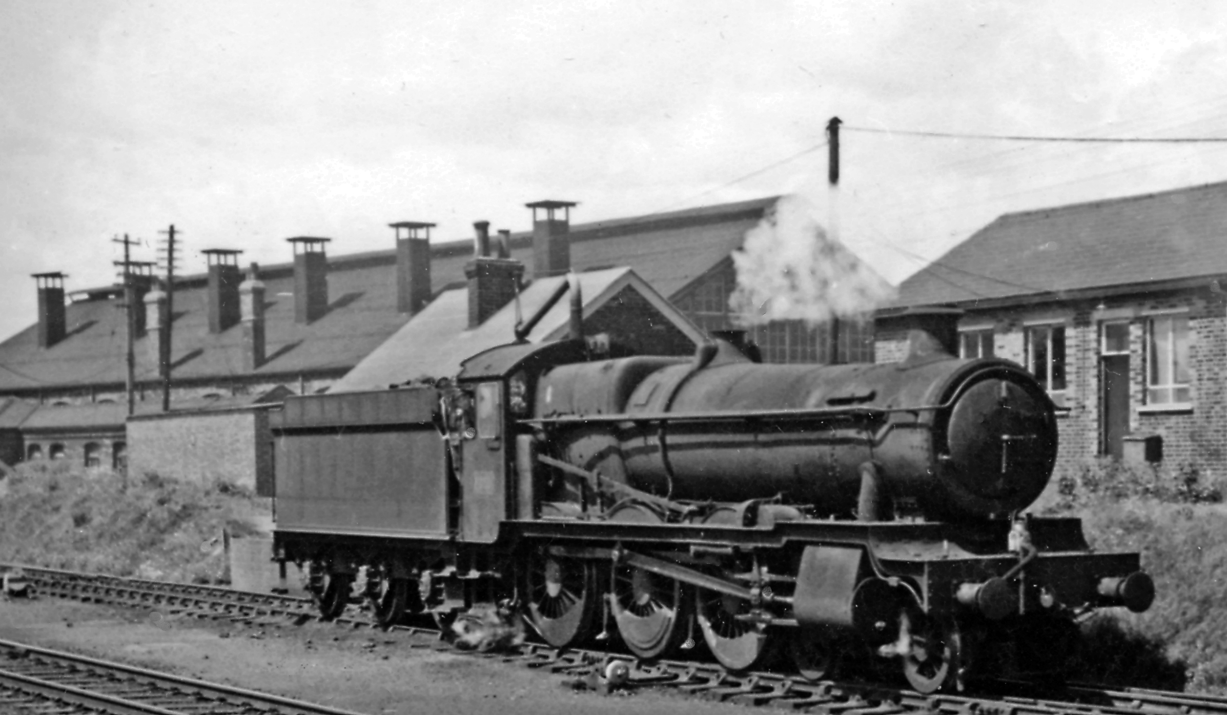 Ex-GW 'Grange' 4-6-0 outside Basingstoke Locomotive Depot. The ex-LSW London - West Country main line is in the foreground and the Shed is behind the engine, Collett 4-6-0 No. 6851 'Hurst Grange' (built 11/37, withdrawn 8/65). Just a month before withdrawal it is still in steam, but bereft of nameplates and number-plates! The GWR, which worked into Basingstoke from Reading, had its own little Depot at the east end of the station, but this was closed in 11/50. after which WR engines were serviced at this ex-LSW Depot.